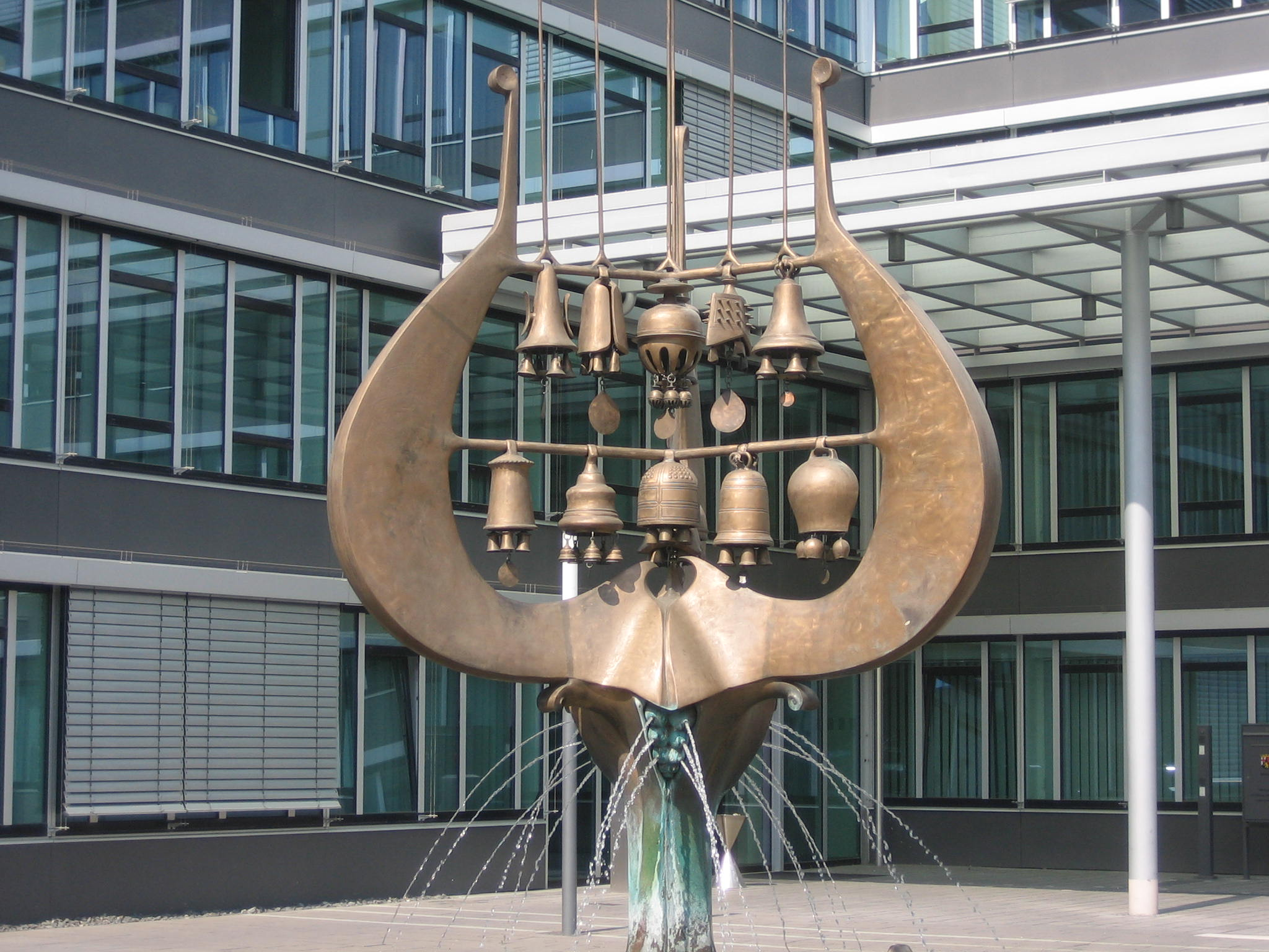 Glockenbaum sculpture in front of the ministery for culture Rhineland-Palatinate.